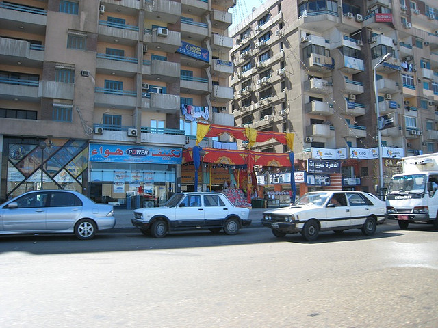 A street in Cairo. Among the vehicles on the picture there is an FSO Polonez MR'83 (most likely produced by Nasr under FSO license).